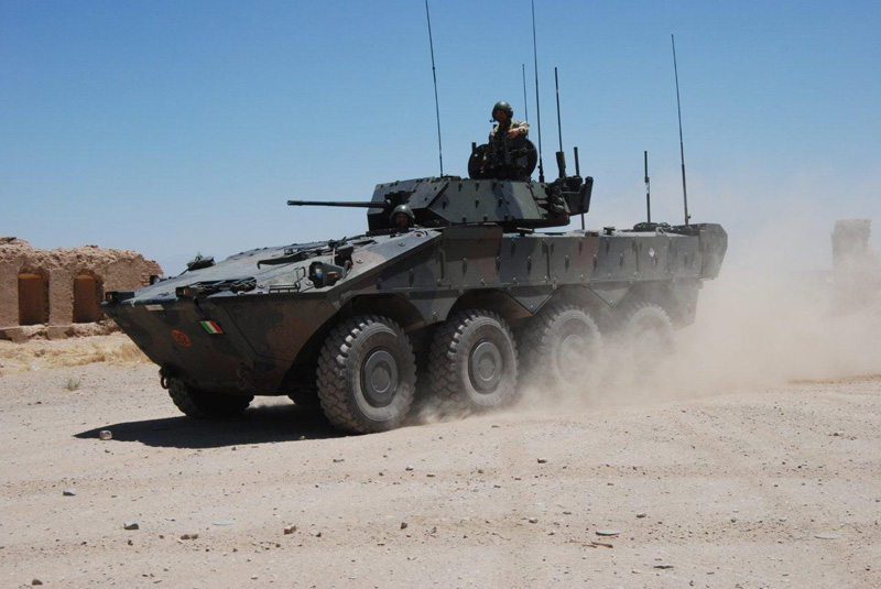 Soldiers of the Italian Army Sassari Mechanized Brigade on patrol in Afghanistan with VBM Freccia.